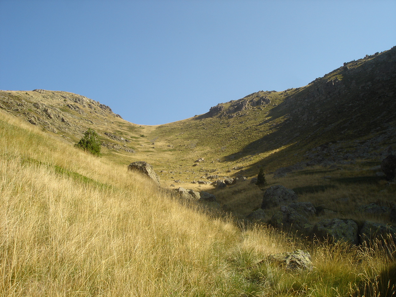 Jablanica mountain, Macedonia